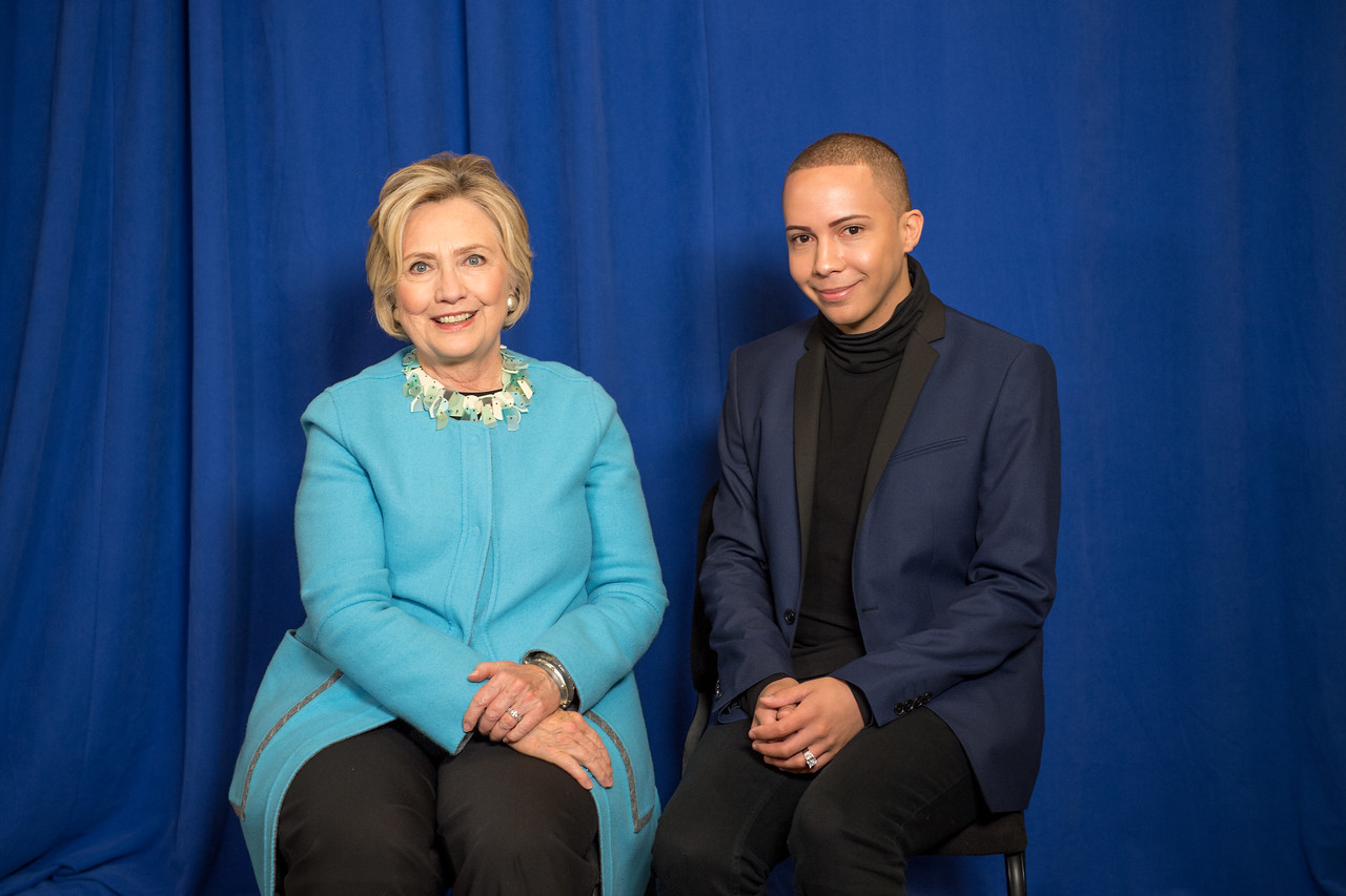 Secretary Hillary Rodham Clinton and Community Advocate Vonny Sweetland